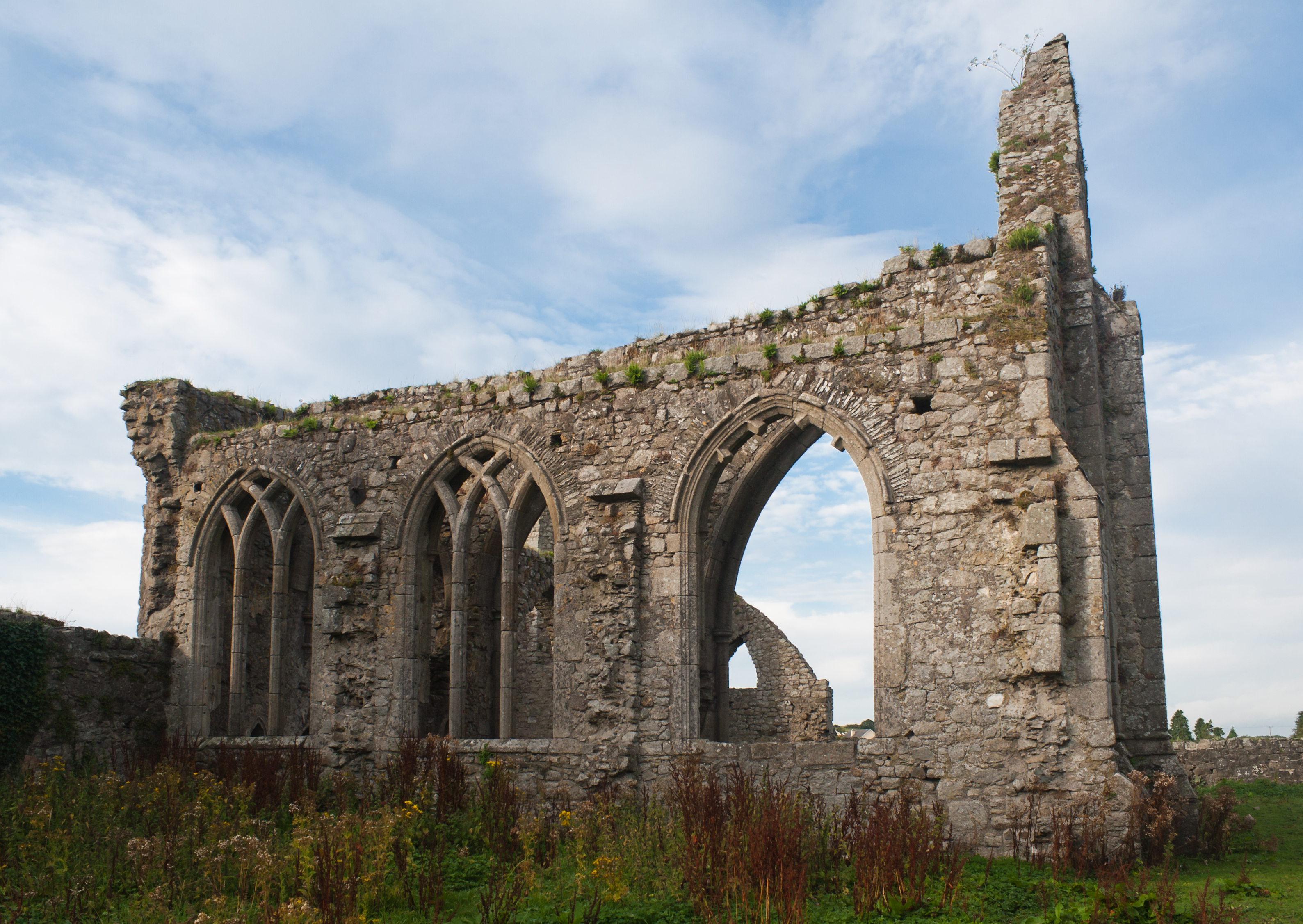 East windows of the north transept in the morning light. These windows can be dated to the beginning of the 14th century.